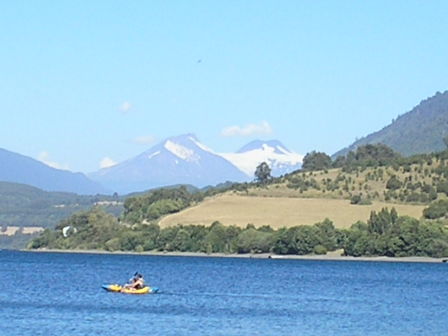 Image of Riñihue Lake and Mocho-Choshuenco from the camping beach at Riñihue